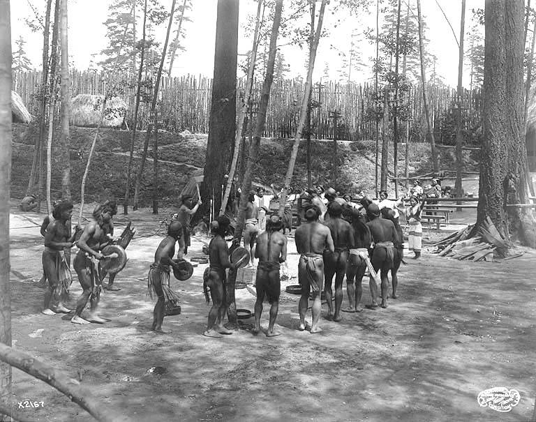 Natives of the Philippine IslandsPH Coll 727.706 Subjects (LCSH): Igorrote Village (Seattle, Wash.); Igorot (Philippine people); Ceremonial dancers--Washington (State)--Seattle; Ethnic costume--Washington (State)--Seattle; Alaska-Yukon-Pacific Exposition (1909 : Seattle, Wash.); Exhibitions--Washington (State)--Seattle